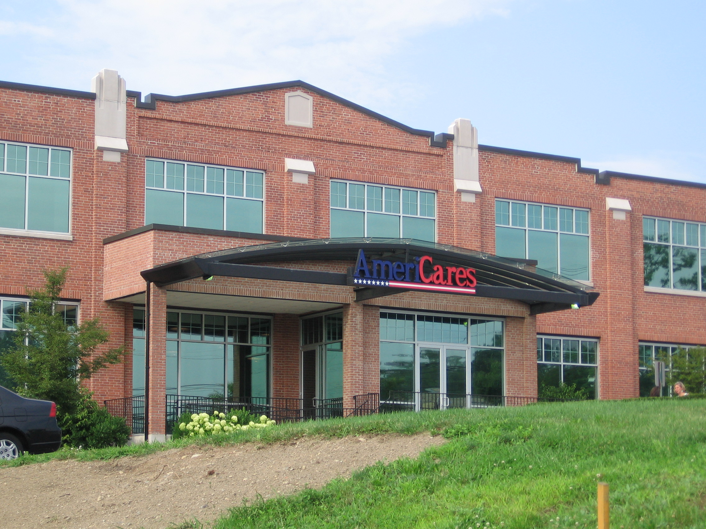 Headquarters building for AmeriCares Foundation, Stamford